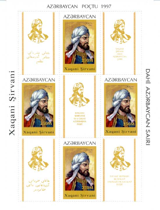 Stamp of Azerbaijan. Inscriptions "Hagani Shirvani, is a great Azerbaijan poet" in Arabic, Azeri, English, Parcian and Russian languages.